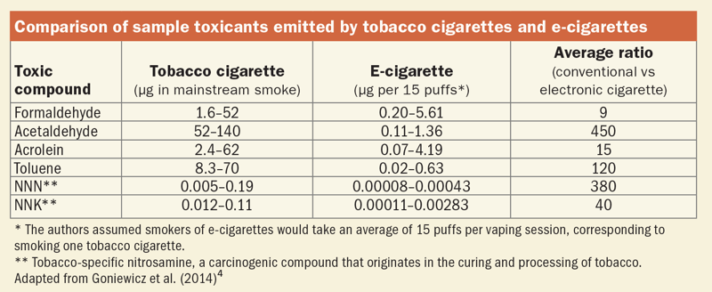 Chart showing different levels of toxicants measured in cigarette smoke and e-cigarette smoke.